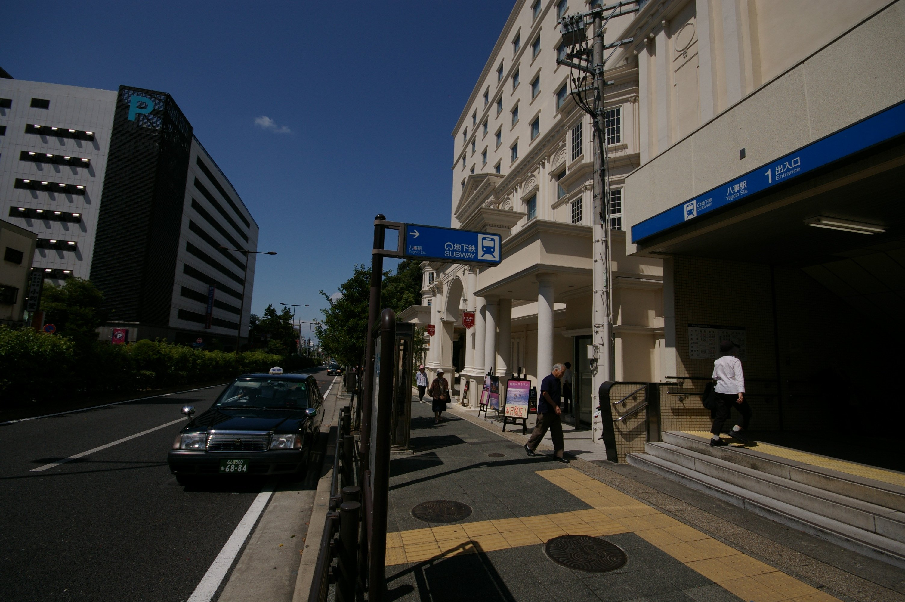 Nagoya Subway Yagaoto Station